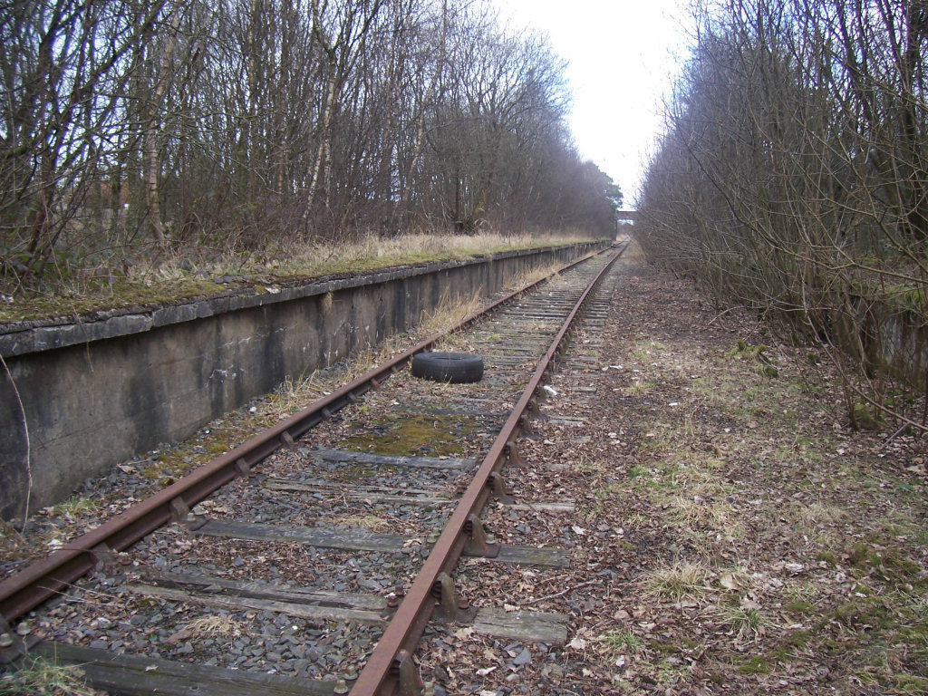 Giffen station in March 2006. Photo by Dreamer84.